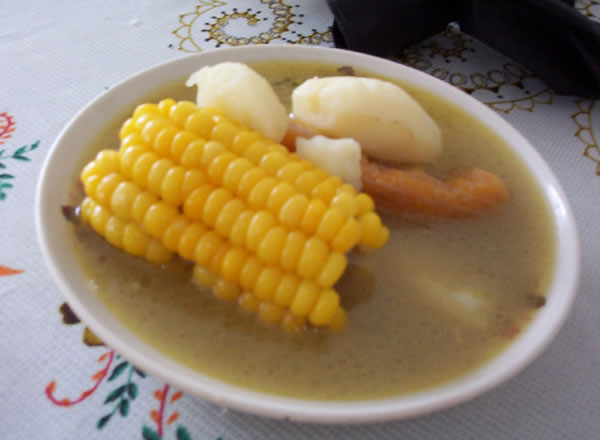 Sancocho chicken soup